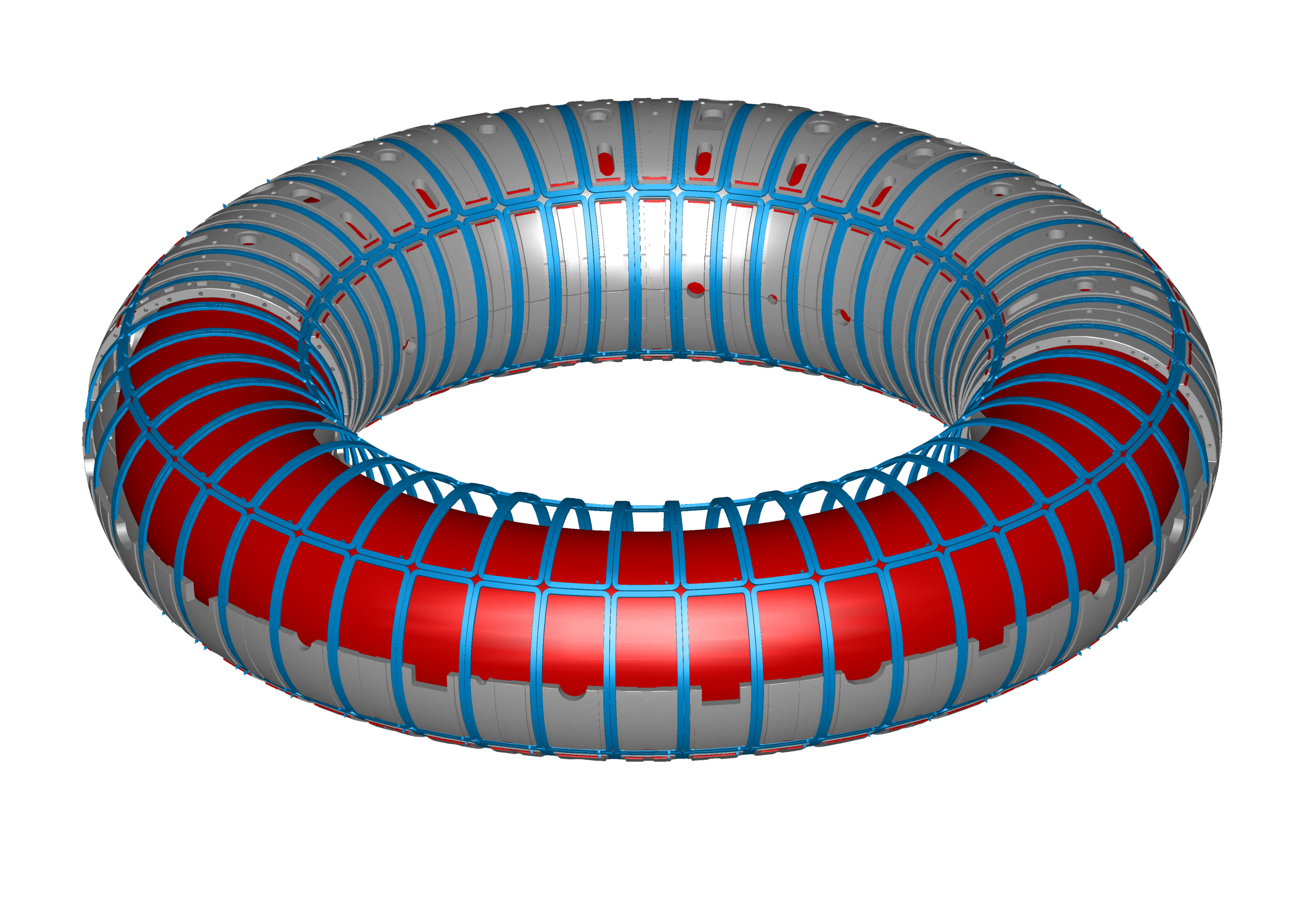 Active saddle coil feedback system in the RFX-mod experiment (Padova, Italy)